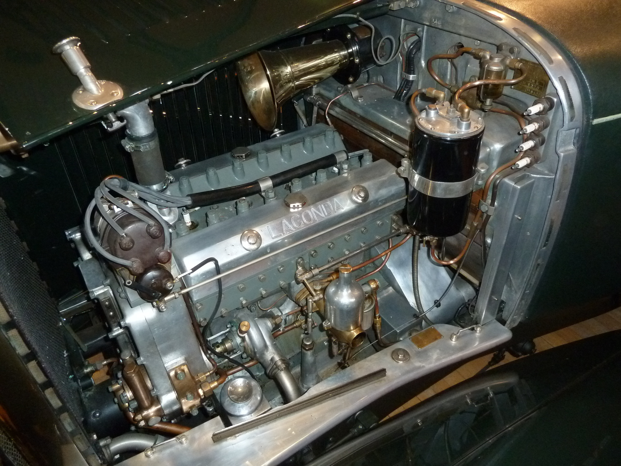 1929 Lagonda 2 Litre engine, Low Chassis Speed Model 1929 Reg Number:KW 6670 Chassis Number:OH9489 Engine Number:1228 Road registered as `KW 6670' on July 24th 1929, car number OH9489 was among the first batch of Low Chassis Speed Models to be built (the number stamped into its engine's timing case - SL907 - suggesting that it may have been the seventh car or thereabouts off the line). Aside from being supplied new by Central Garage of Bradford, the four-seater's pre-WW2 history is a blank.